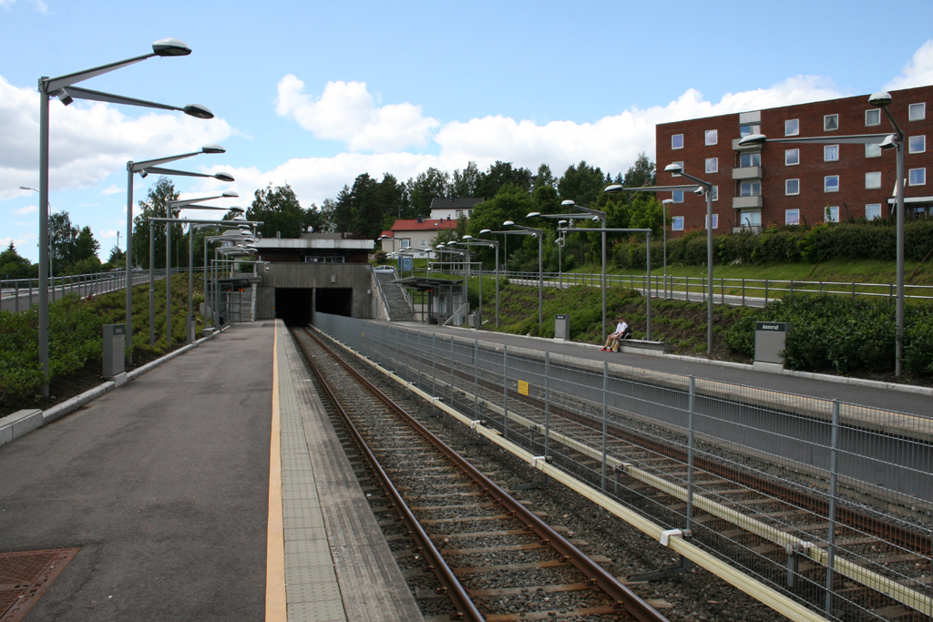 Ammerud Metrostation seen from the platform to Grorud metrostation, but in direction towards Kalbakken.